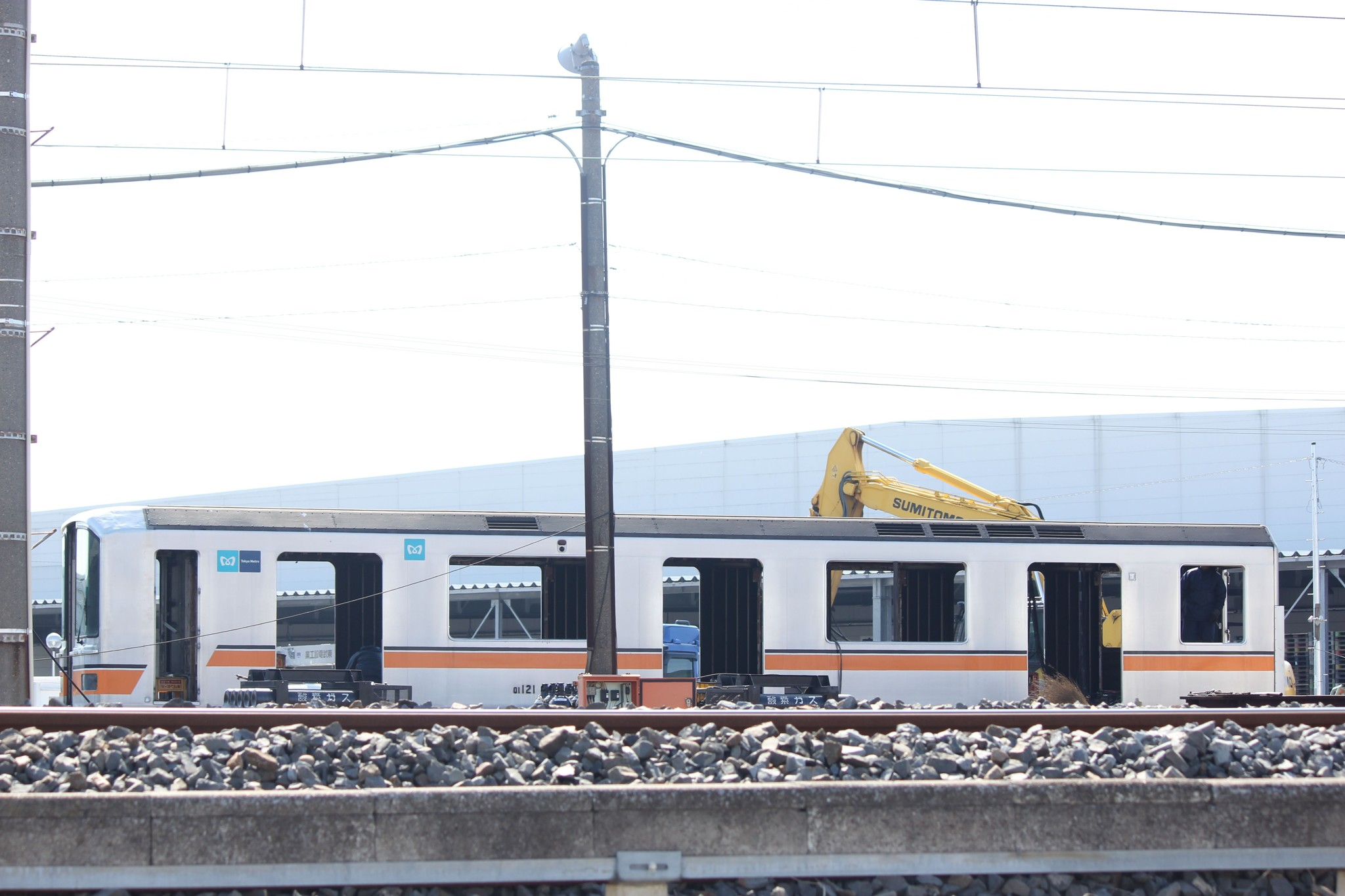 Tokyo Metro Ginza Line 01 series EMU car 01-121 being cut up at a scrap yard in Kita-Tatebayashi, Gunma Prefecture